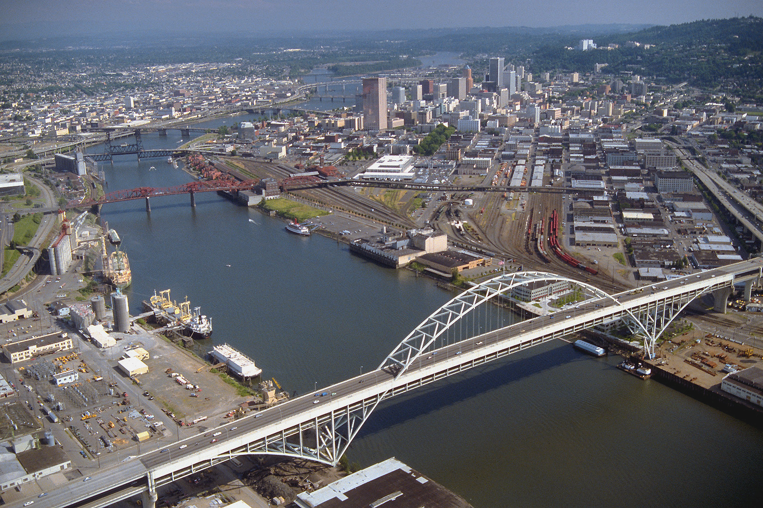 The Fremont Bridge across the Willamette River in Portland in the U.S. state of Oregon. View is upstream (generally south).